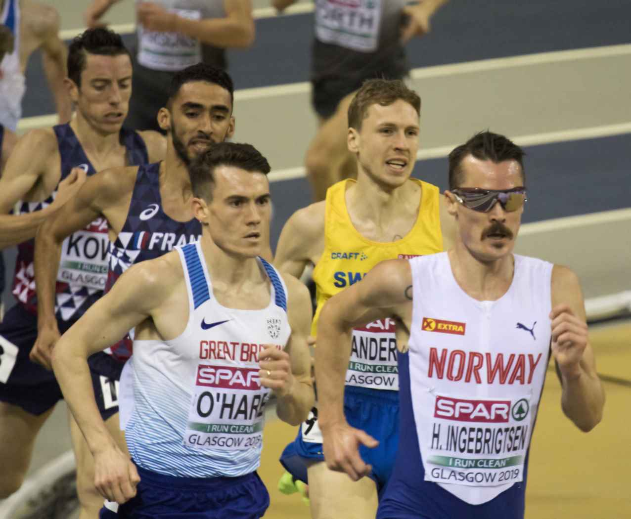 Men's 3000m final, Glasgow 2019